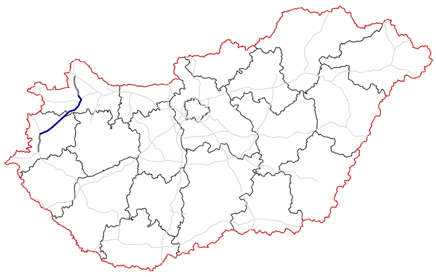 Traject the M86 Motorway, Hungary (Blue: in use, Light blue: under construction, Green: planned)